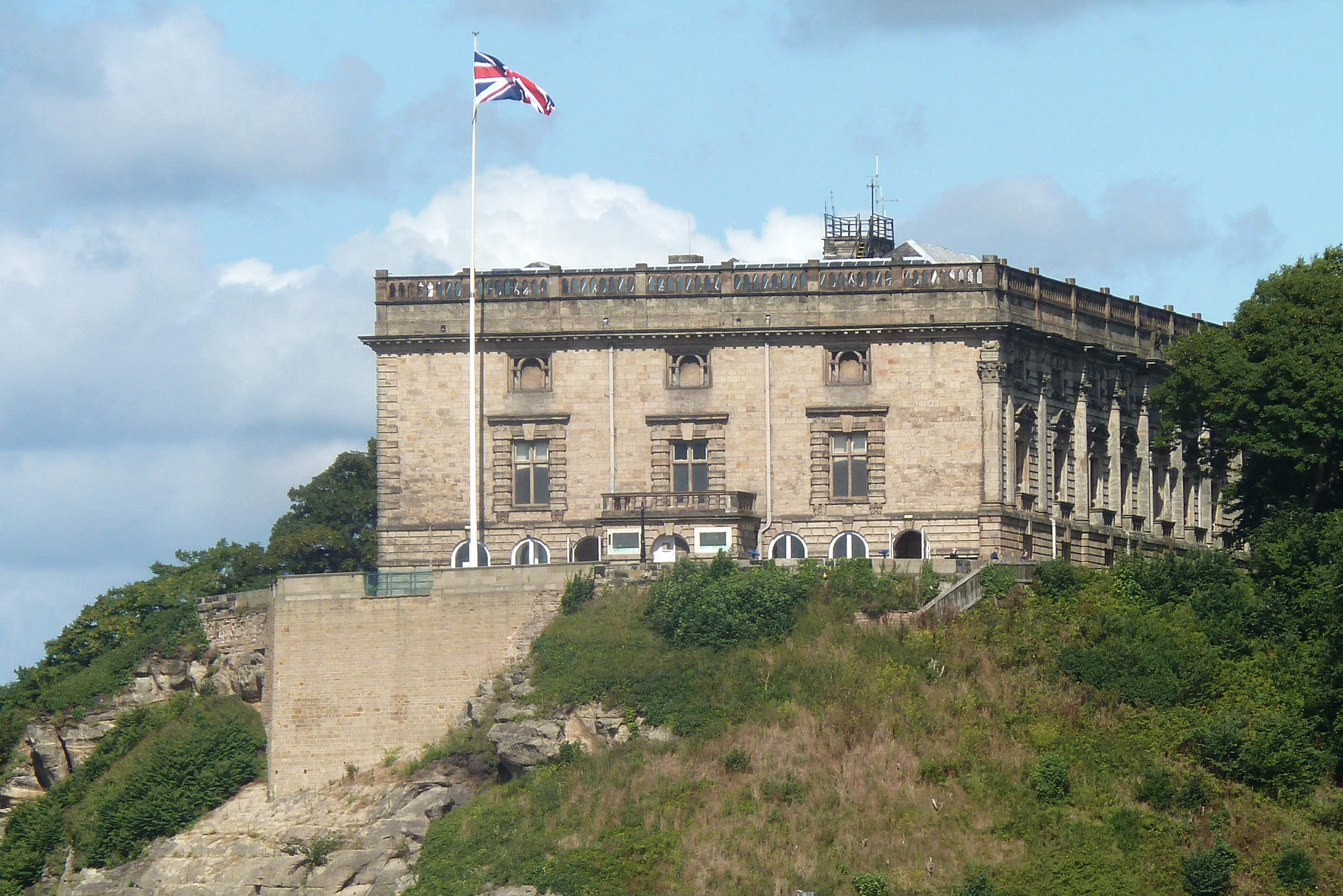 Nottingham Castle viewed from the south near Nottingham railway station